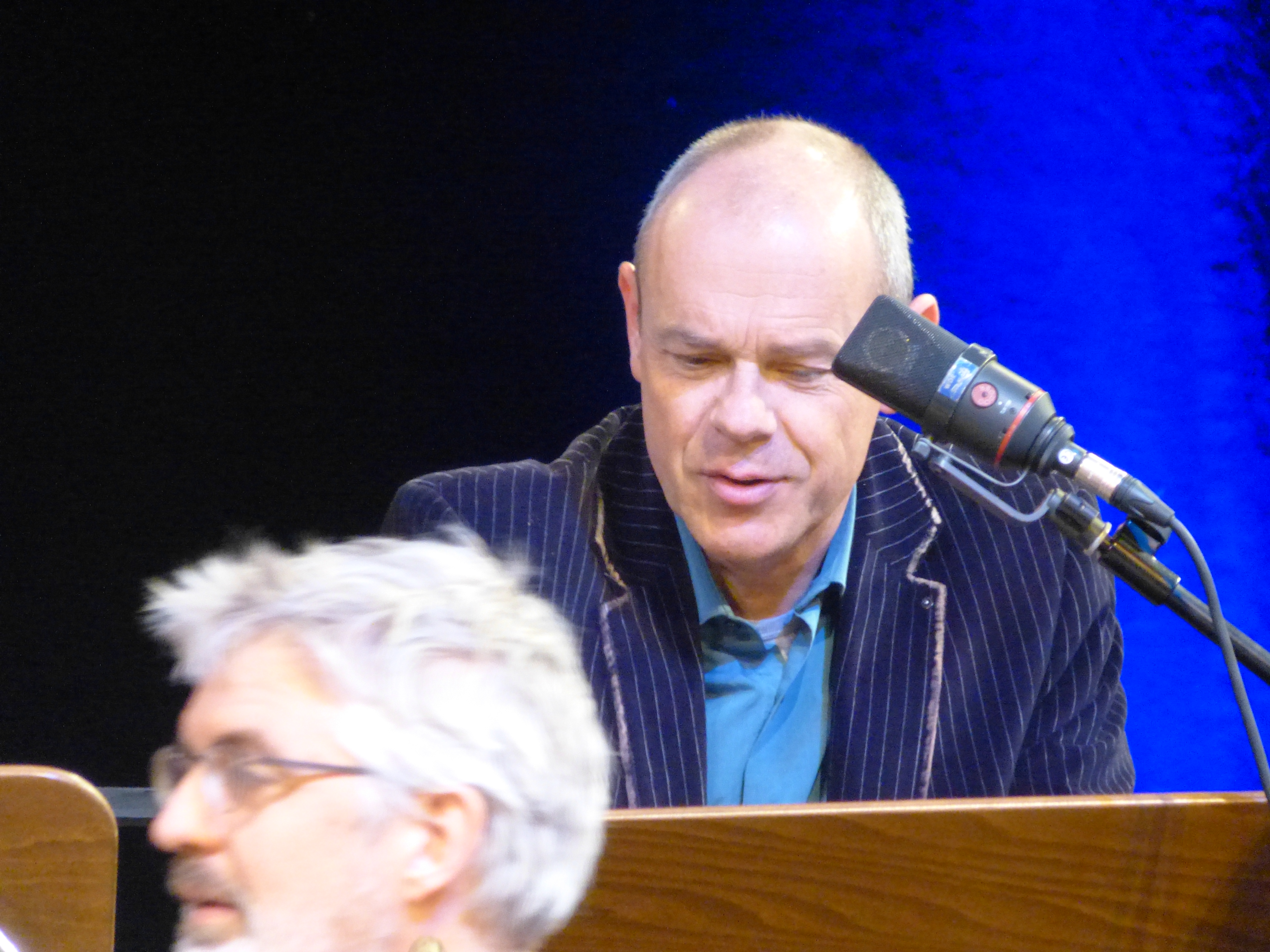 Angelo Verploegen in concert with the David Kweksilber Big Band at WDR, Cologne, Germany, May 6th, 2017 in the course of the Acht Brücken festival (above; below also Joost Buis (tb))